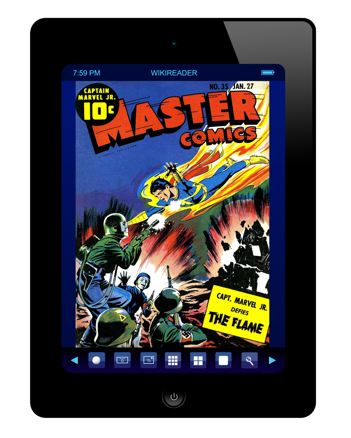 Faux iPad/reader, incorporating a public domain comic book cover (Master Comics, January 1943). Basic design by Black Shade9, attribution is not necessary.